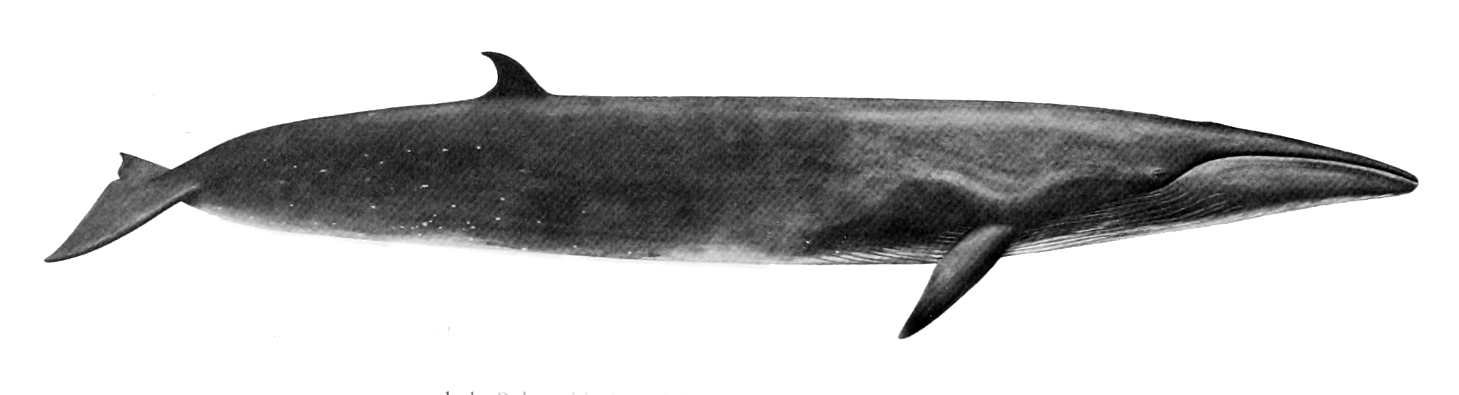 Balaenoptera borealis